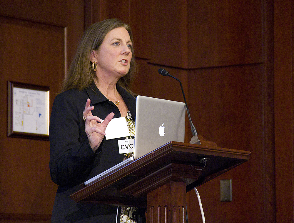 The National Science Foundation (NSF) and the American Association for the Advancement of Science (AAAS) held a briefing on super storms on March 24, 2015. Dr. Jenni L. Evans, professor of meteorology and acting director of the Institutes of Energy and the Environment at Penn State University, talked about hurricane threats, including wind, storm surge and rain, and she spoke about the need for more interdisciplinary research with meteorologists, statisticians, physicists, and others, to develop a better understanding of storms. She also discussed efforts to bring together researchers and forecasters to find more effective ways of turning new knowledge into information, and improving communications to the public. You can learn more in this video of the briefing. Credit: Julia Gureck for NSF